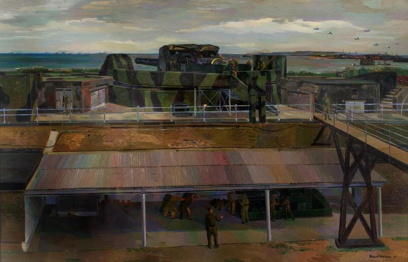 A 9.2-inch Breech Loading (BL) gun in camouflaged gun emplacement at Grain Fort on the coast overlooking the Rivers Thames and Medway and manned by several soldiers.